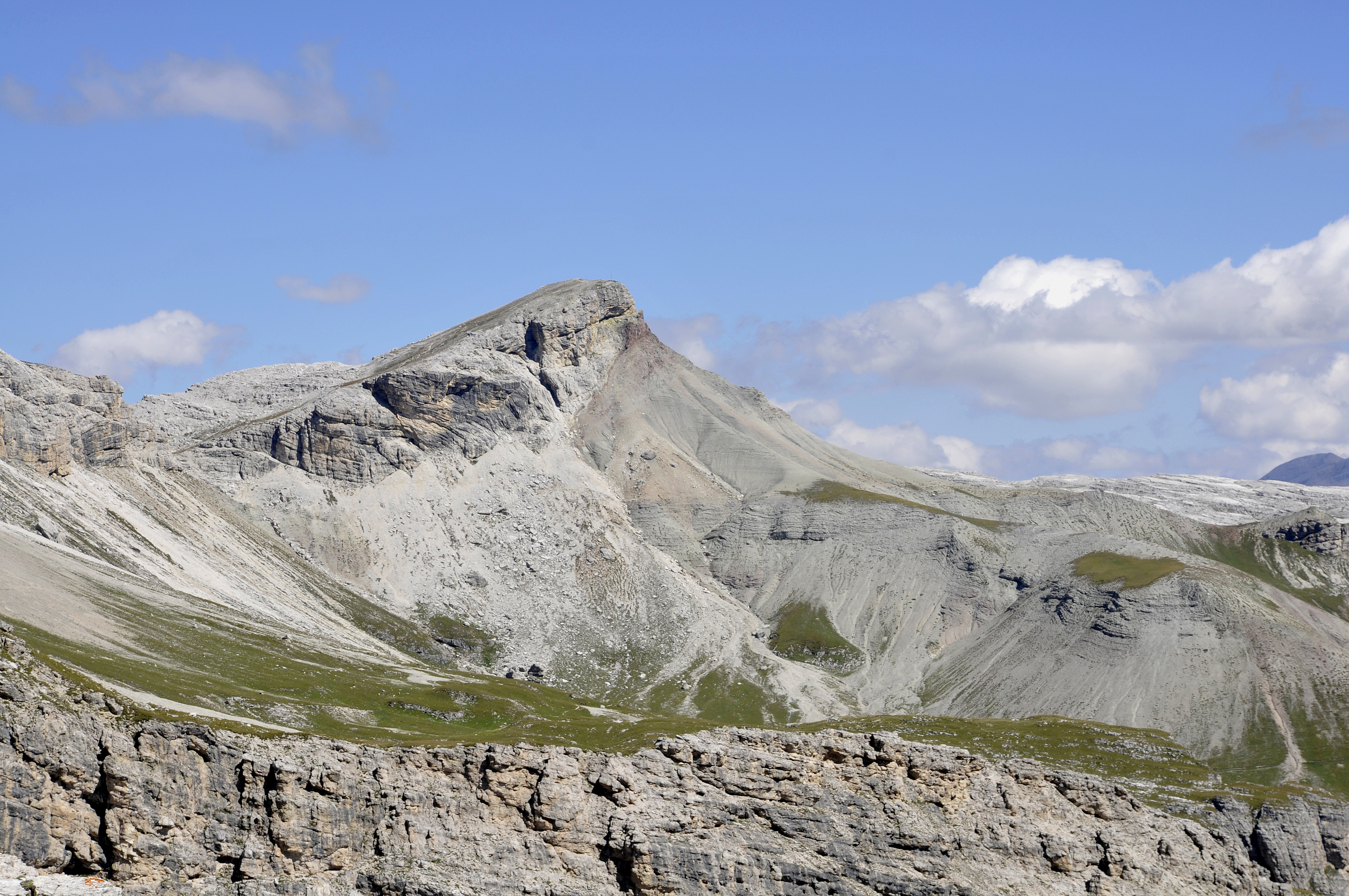 TheCol de Puez from Col dala Pieres